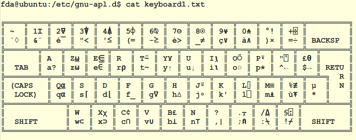 French GNU APL keyboard using setxkbmap -layout "fr,apl"